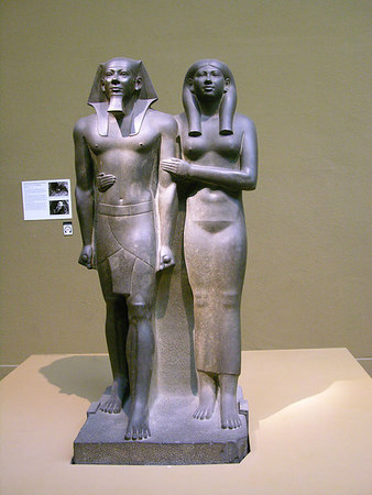 King Menkaura from a Statue of Menkaura (Mycerinos) and Queen Khamerernebty II. (Chamerernebti II.). From the Giza Valley Temple of Menkaura, made during his reign (circa 2548-2530 B.C.) Graywacke. Now residing at the Museum of Fine Arts, Boston. Museum Expedition 11.1738.